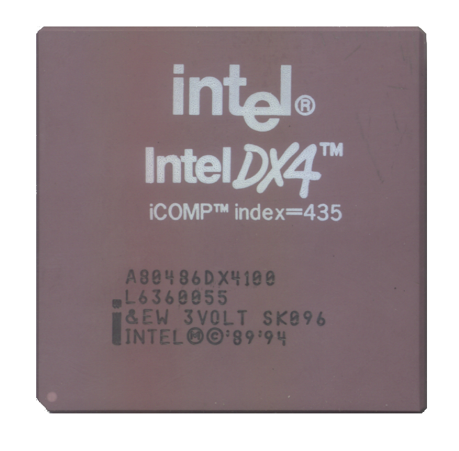 IC photo